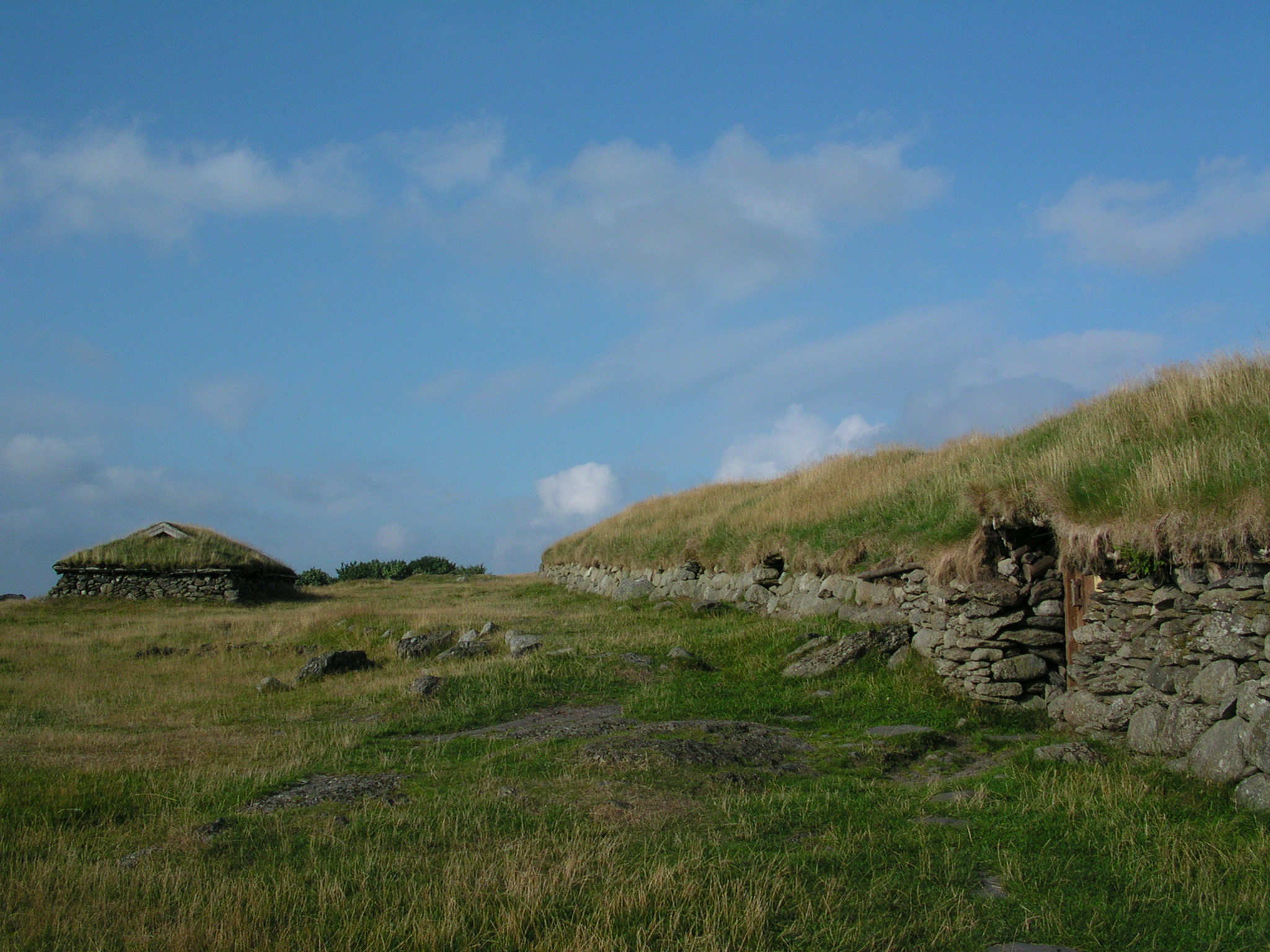 Iron age farm reconstructed at Ullandhaug in Stavanger, Norway. Photographer: Gunleiv Hadland